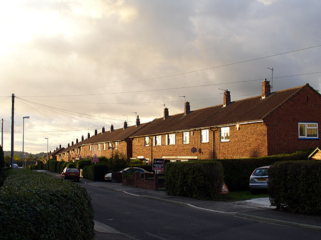 Tilling Road A narrow road, but well used as one of the back routes into Southmead Hospital.